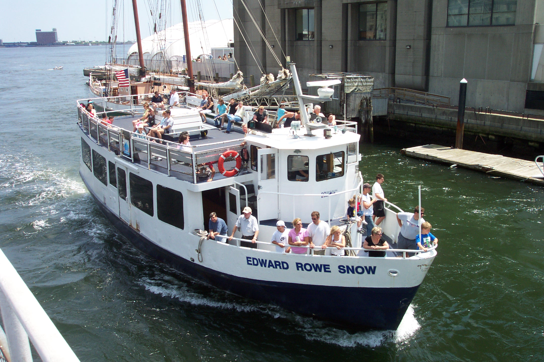 The Edward Rowe Snow on a Massachusetts Bay Transportation Authority inner harbor F4 service, arriving at Boston's Long Wharf from Charleston.